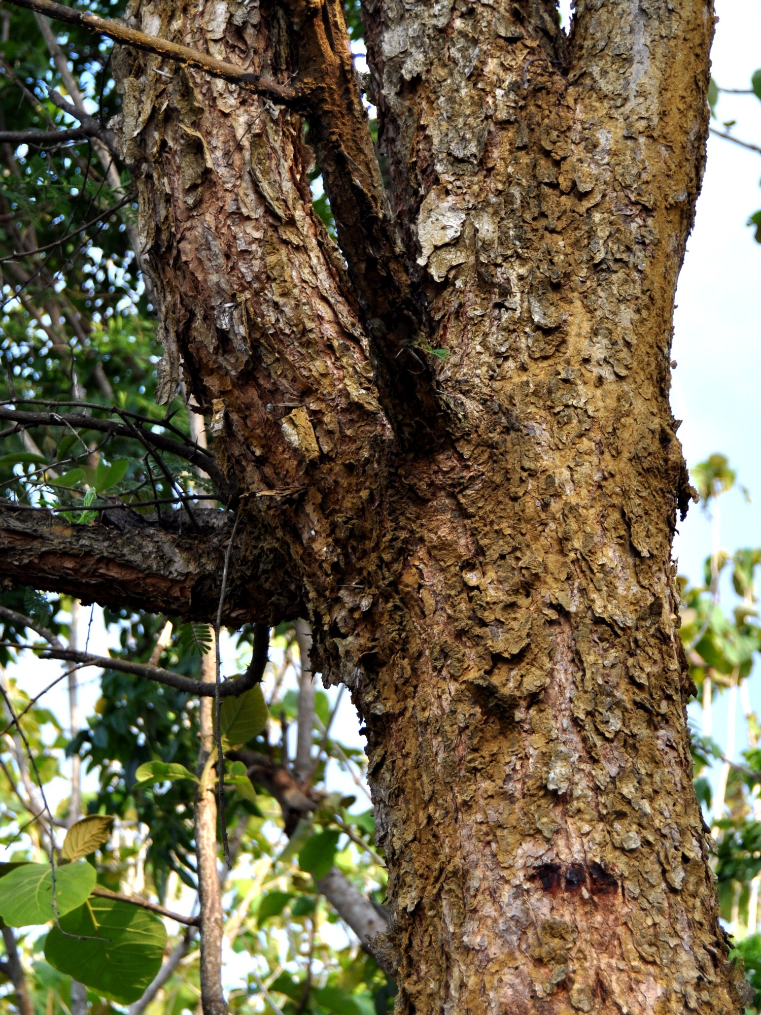 Acacia tomentosa, bark and branching. Blora, Central Java, Indonesia.